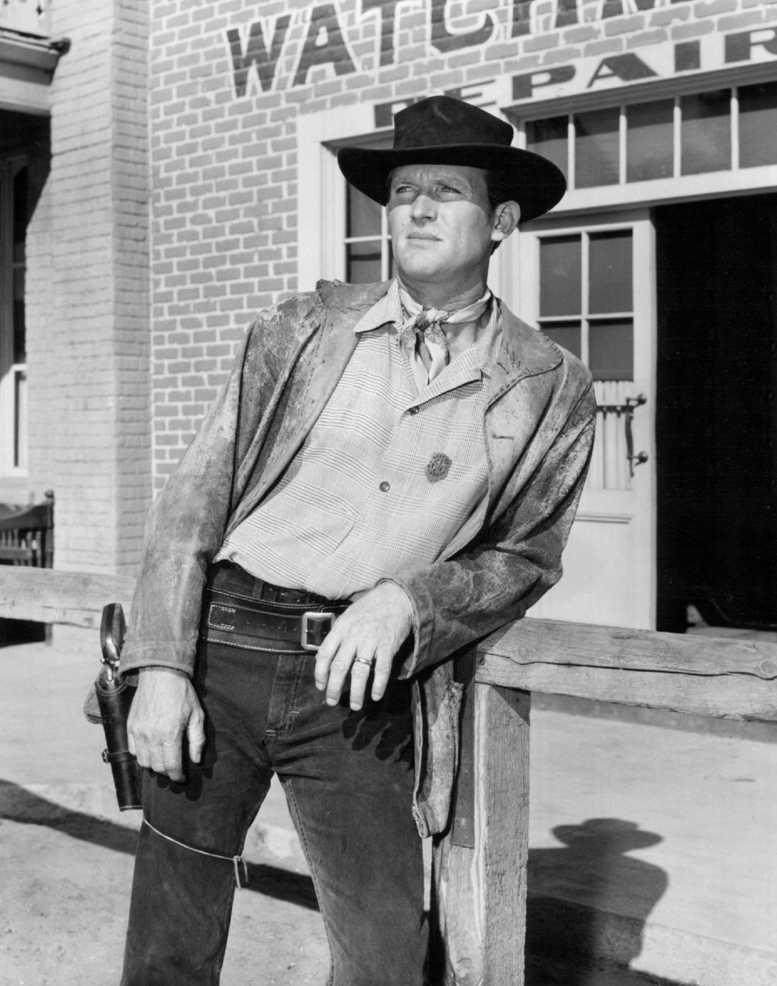 Photo of Don Collier as Will Forman in the television western series The Outlaws.